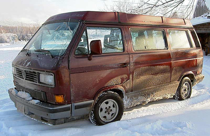 Photograph of 1990 Volkswagen Multivan, Bordeaux Red Metallic.